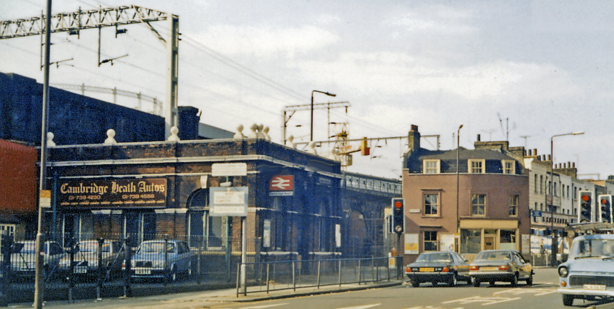 Entrance to Cambridge Heath station on Cambridge Heath Road, 1983. View northward at Hackney Road, towards Hackney Downs on the main ex-GER line from Liverpool Street to Bishops Stortford and Cambridge. This station served only the local trains to Chingford and Enfield Town.